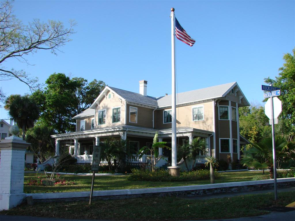 A house in the Rockledge Drive Residential District, Rockledge, Florida. March 24, 2007.